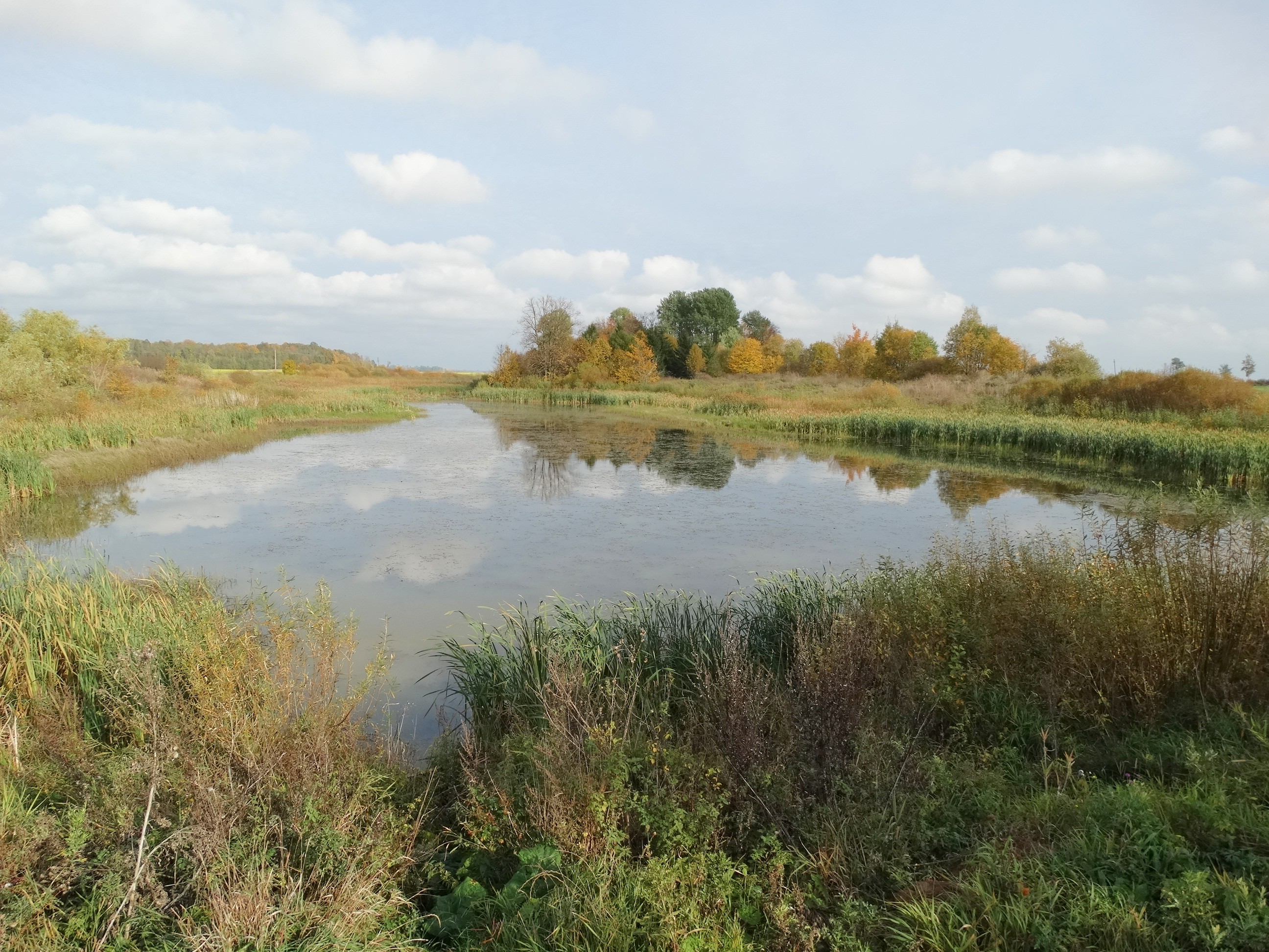 Pond Valakbūdžių, Šakiai district, Lithuaniа